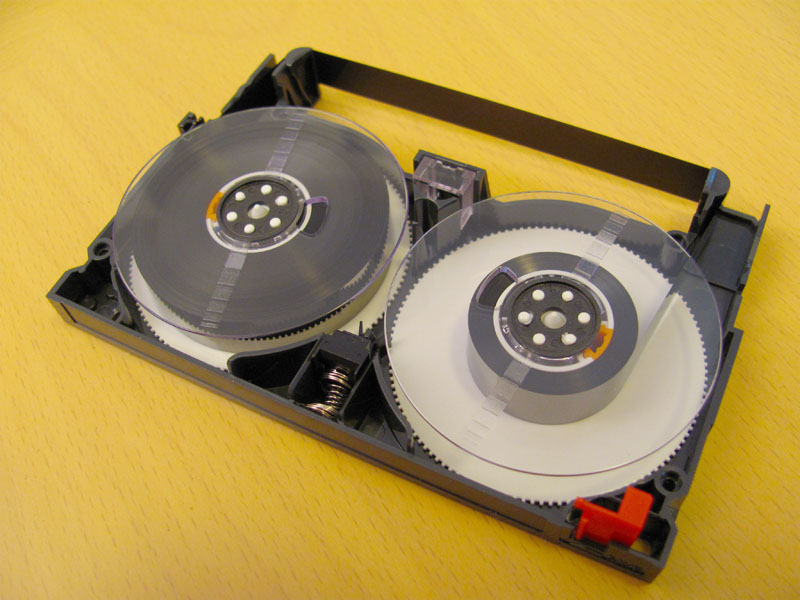 The interior of a Hi8 cassette, top portion removed.